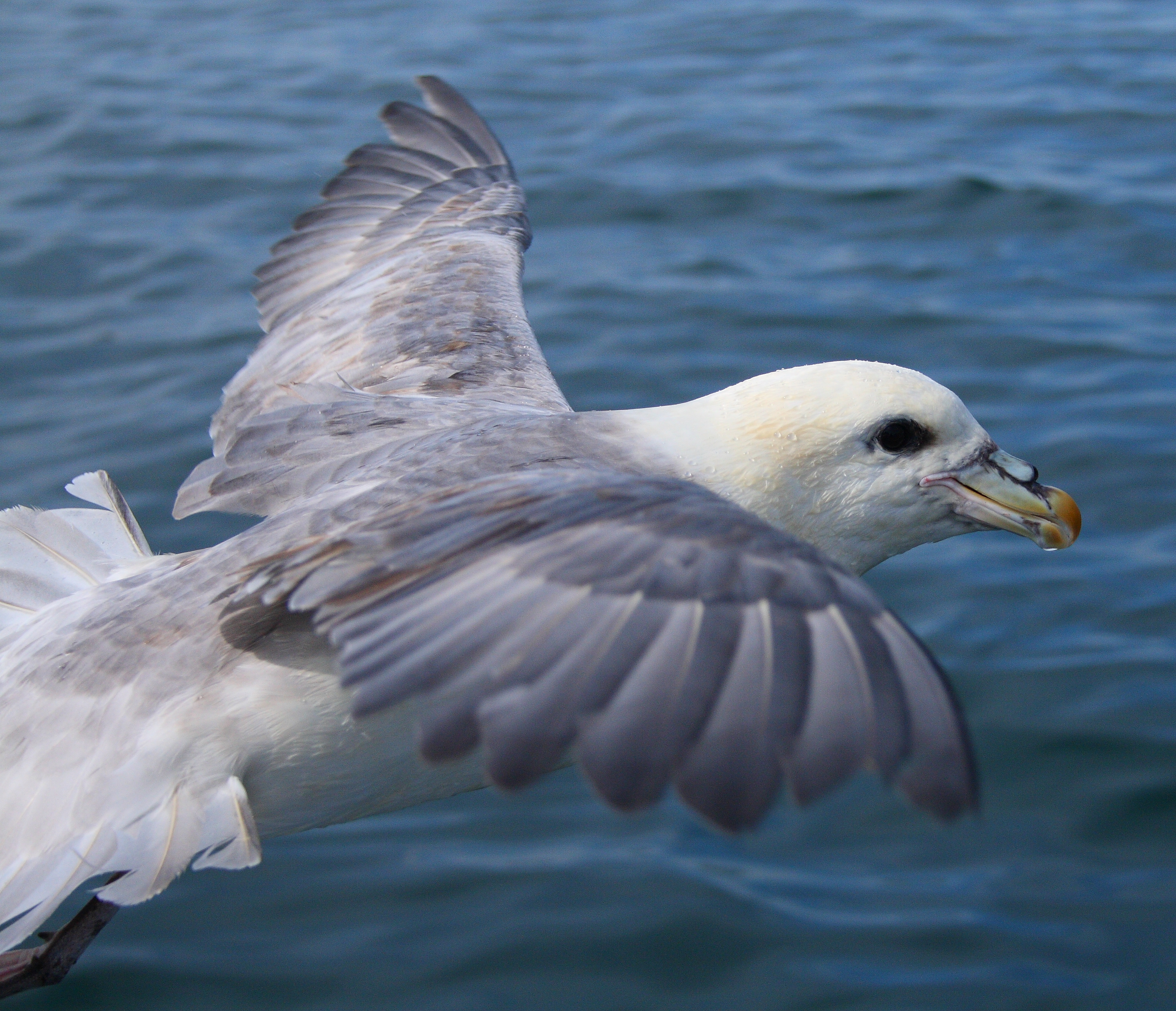 Fulmar in flight, Reykjavik, Iceland.